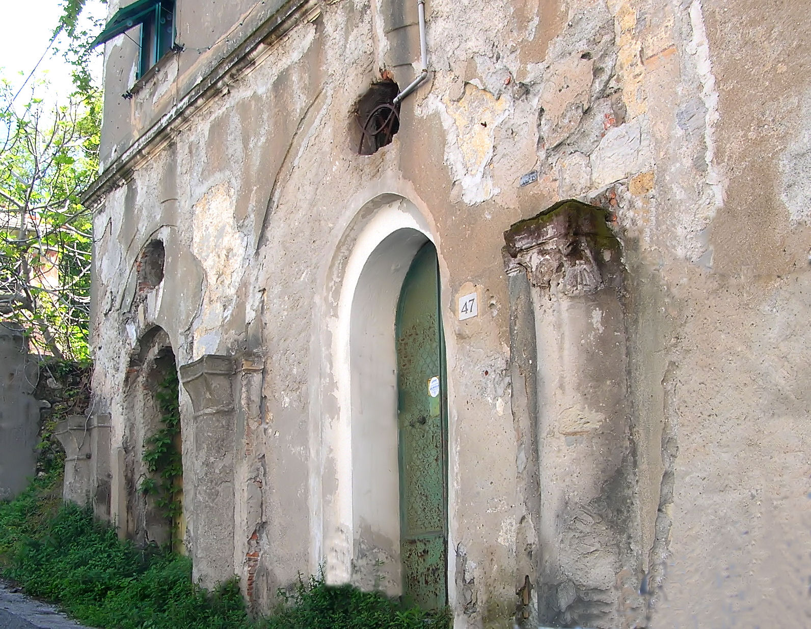 Genoa (Italy), quarter of Rivarolo, ruins of the church of Campoflorenziano